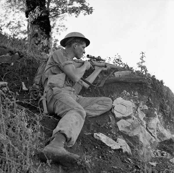 Private J.E. McPhee of The Seaforth Highlanders of Canada, who is armed with a sniper rifle, under German mortar fire, Foiano, Italy.